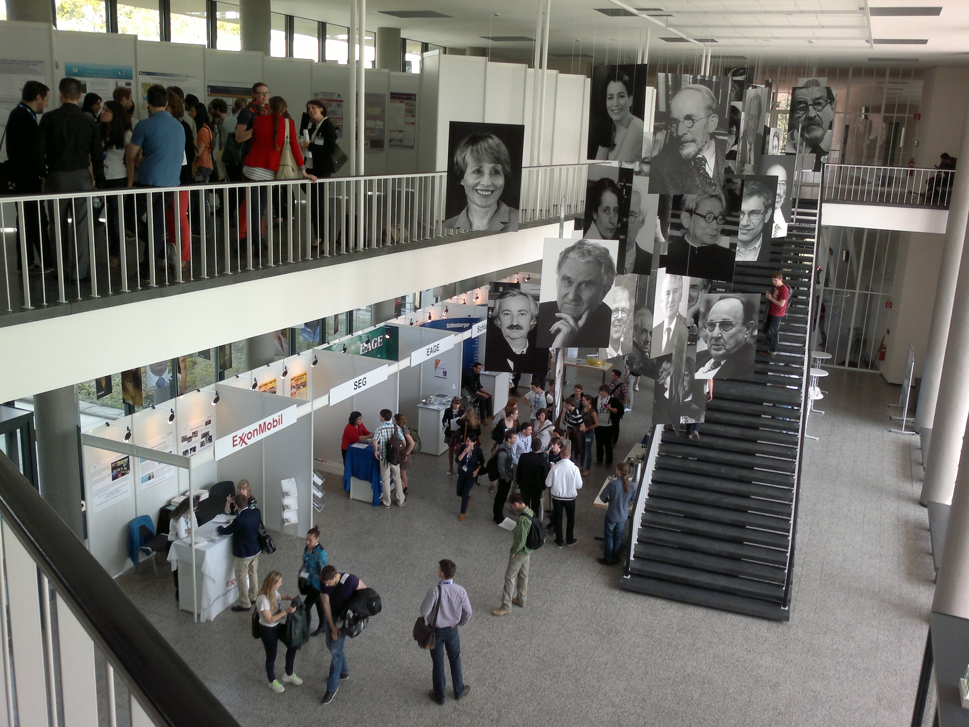 Henry Ford Bau. View from the second floor to the hall. During IGSC 2013. Berlin.